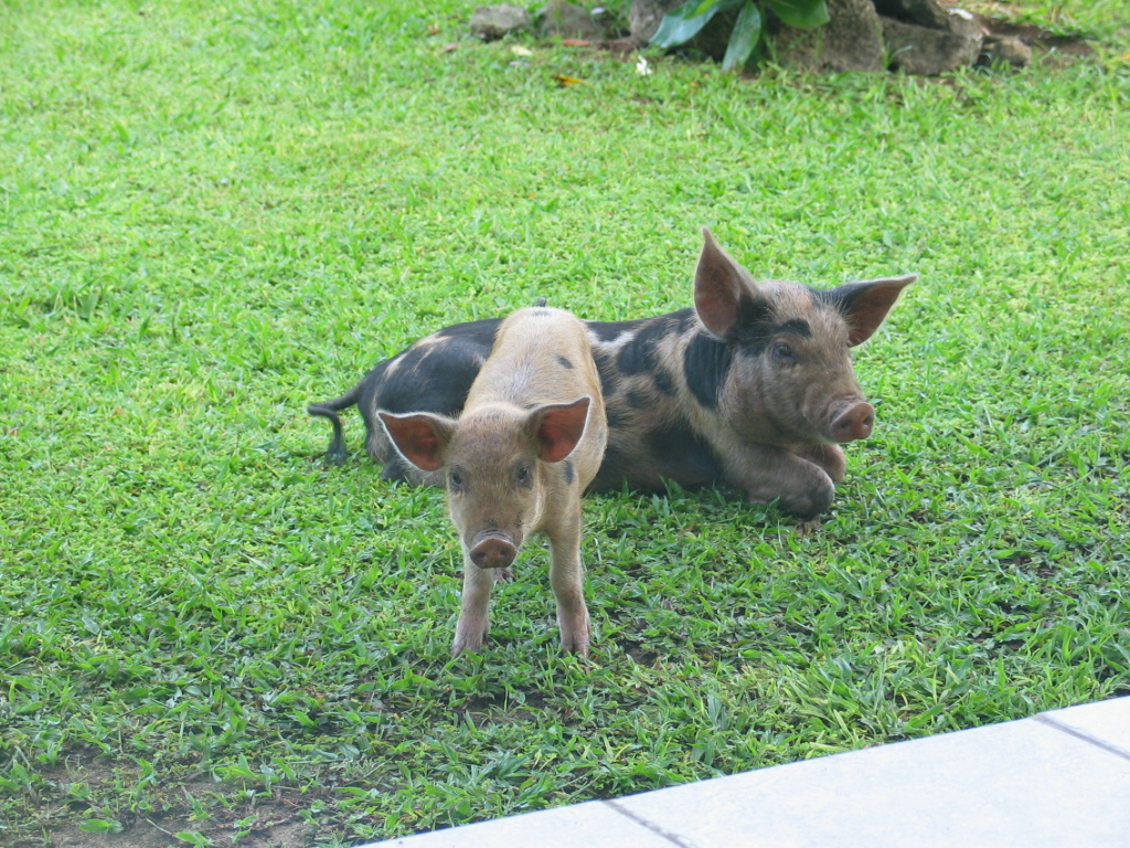 No dogs allowed; Pigs gard houses on Aitutaki